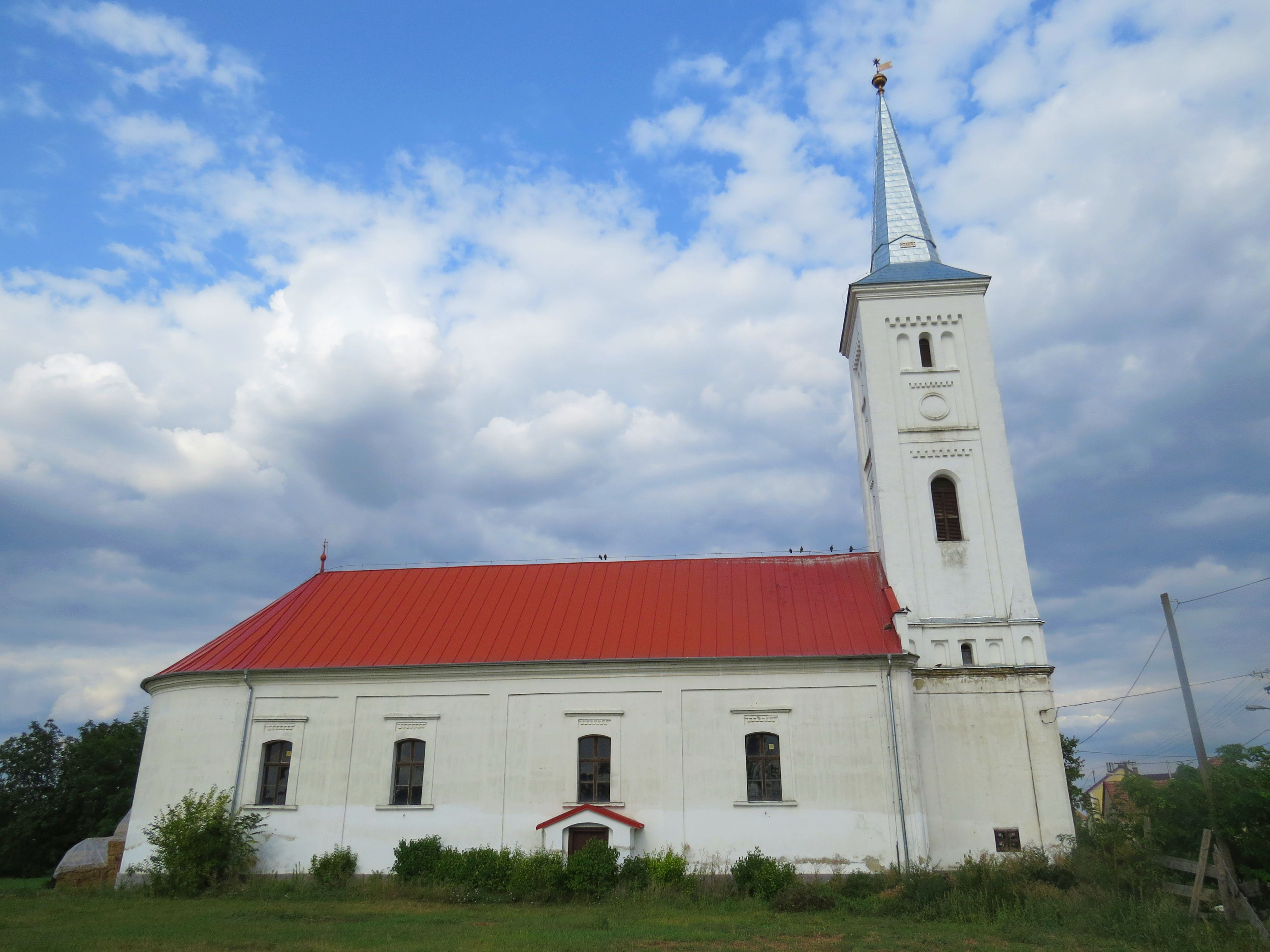 A furtai református templom 2017-ben.